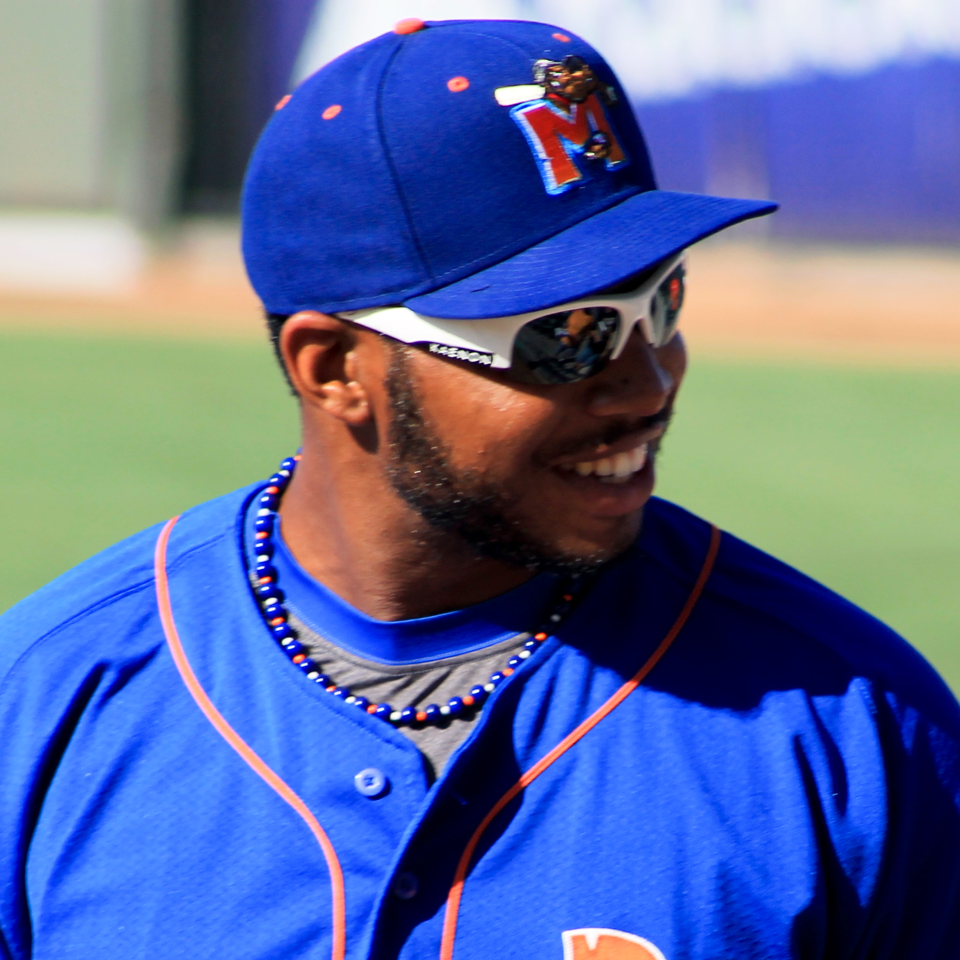 Jeremy Barfield, a minor league baseball player with the Midland RockHounds, at Whataburger Field in July 2014